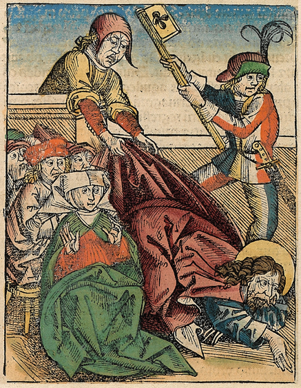 This is a part of a scan of an historical document: Title: Schedelsche Weltchronik or Nuremberg Chronicle